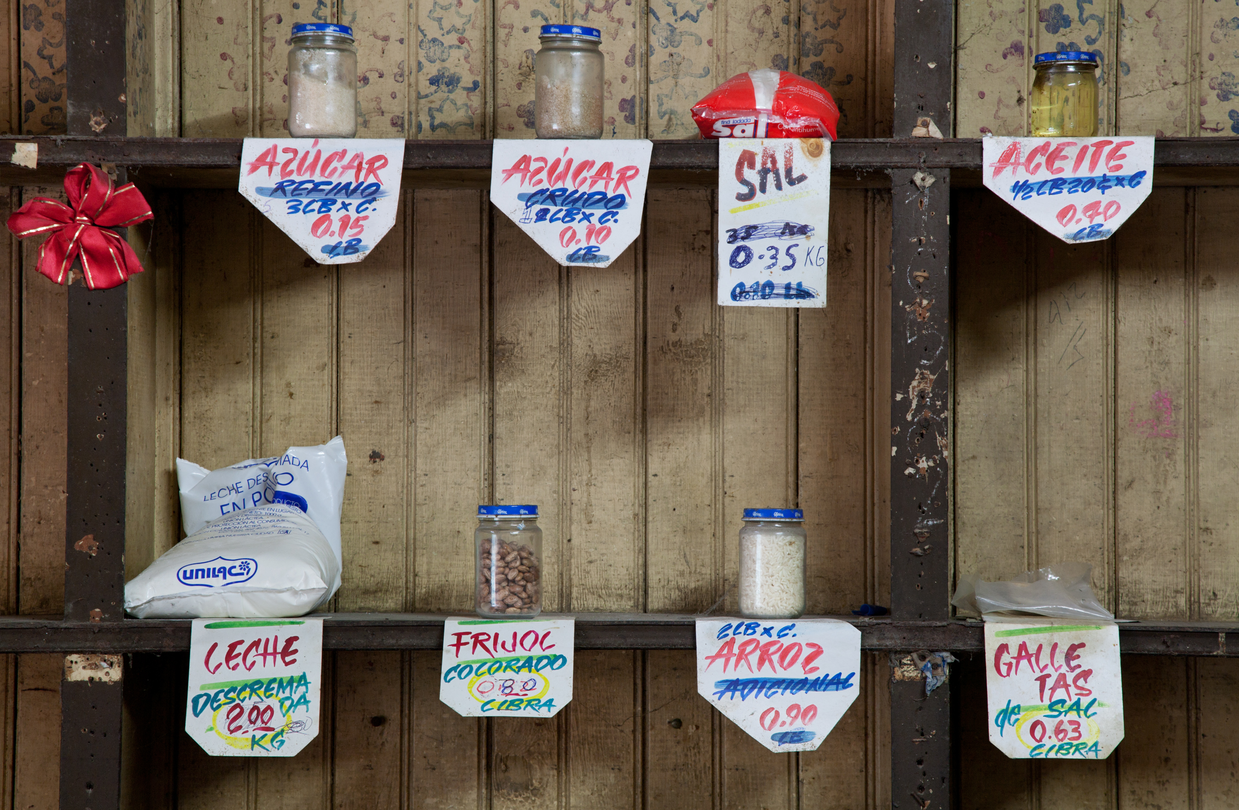 Cuba has two parallel currencies: National Pesos and Convertibles to Dollars (CUCs). National pesos only buy goods in bulk , limited with a "Libreta" to a fixed quantity each month. Here, a sample of the 10 or 20 staples available in a "Bodega" depending on the week day. Havana (La Habana), Cuba